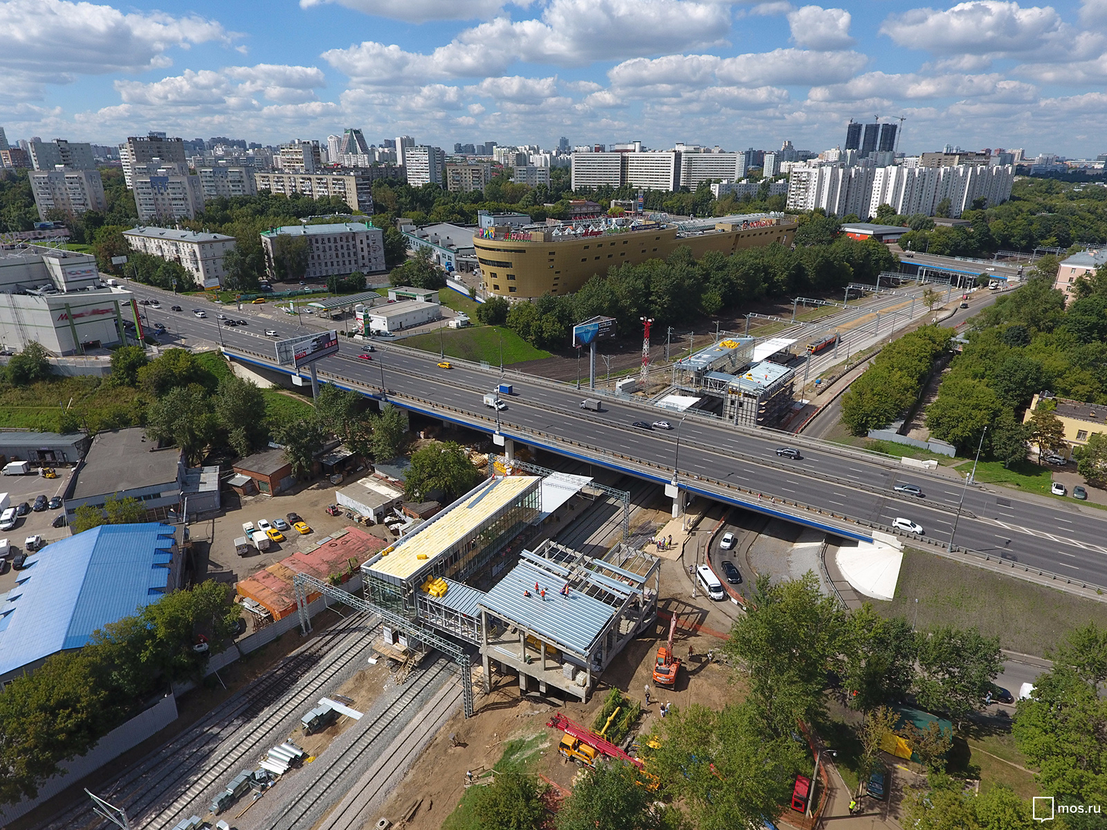 Platform, Sevastopol Prospect, Yuzhny Administrative Okrug, Moscow (August 2016).